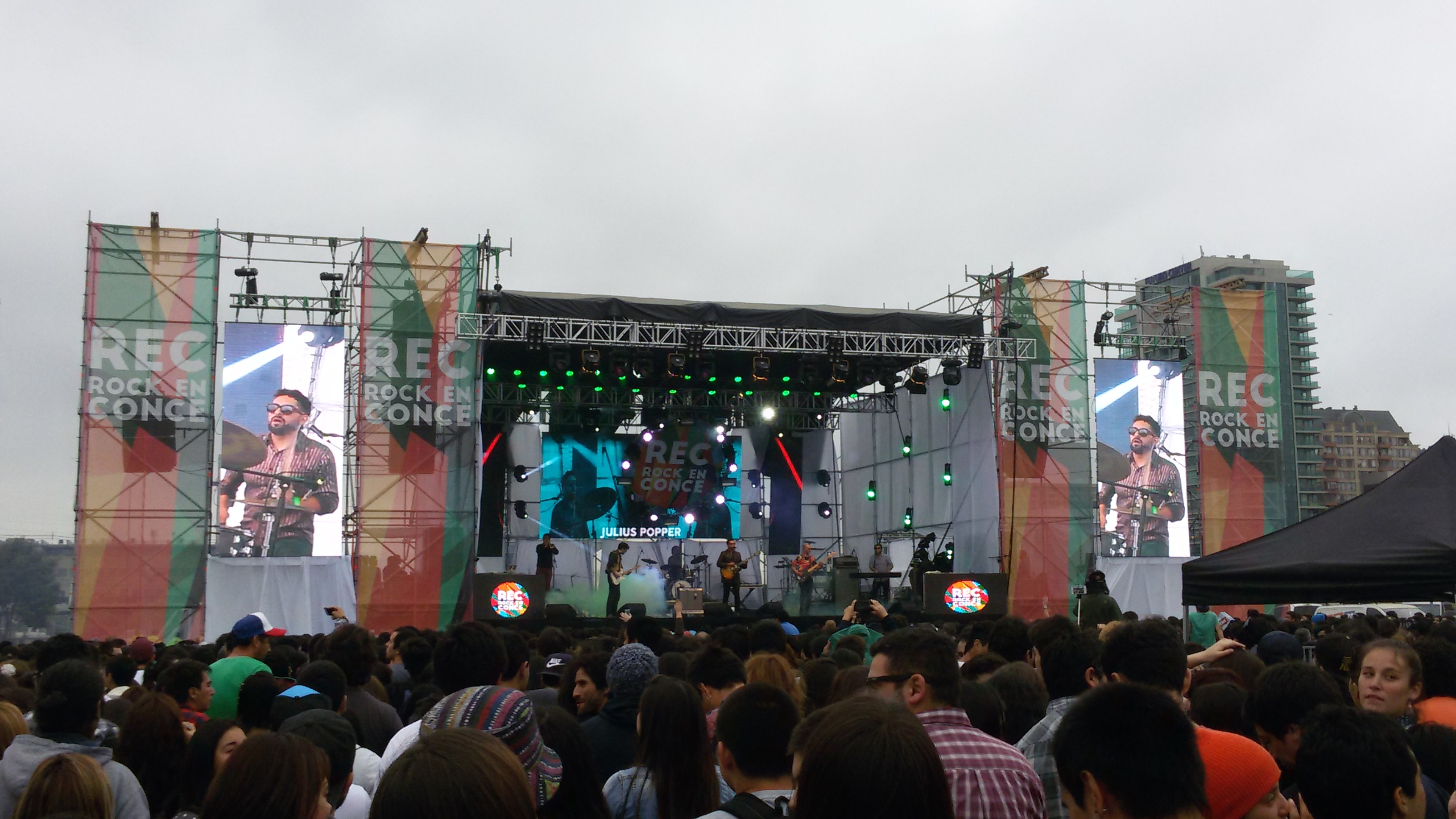 Julius Popper (chilean band) performing at Rock en Conce festival.